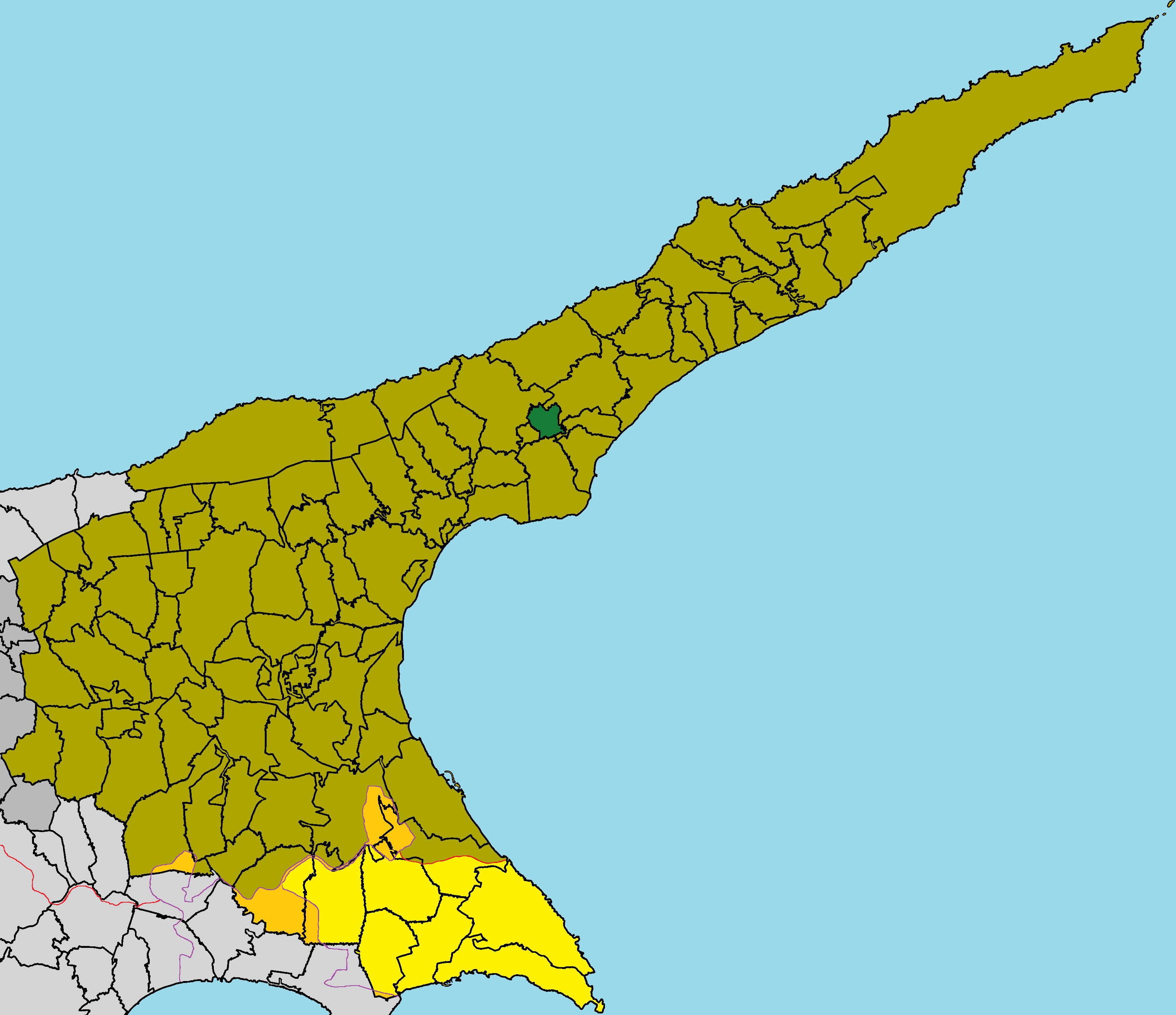 Livadia in Famagusta District (de jure).